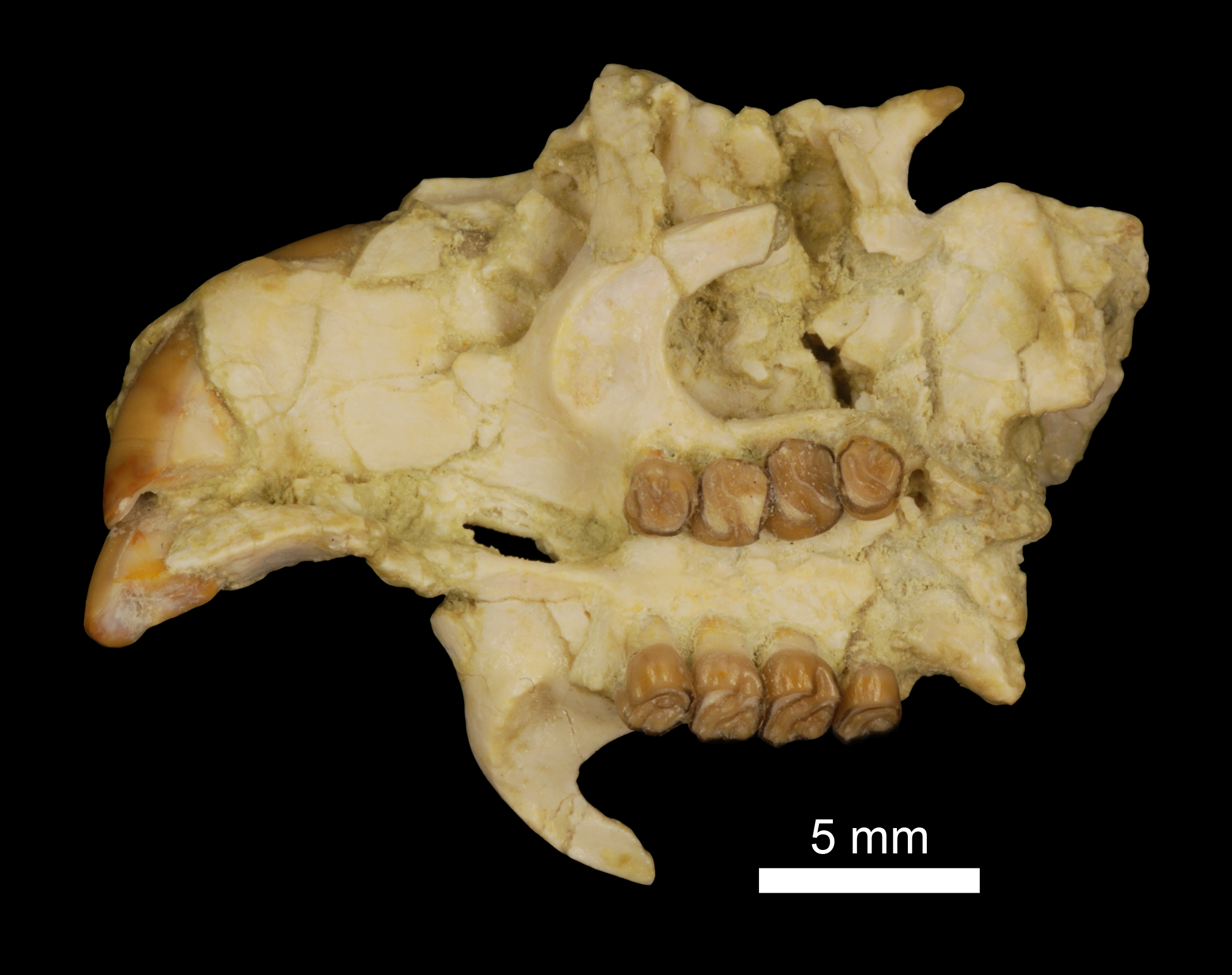 Ventral view of Gaudeamus aslius skull.